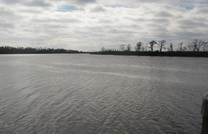 Pearl River looking south, viewed from Pearlington, Mississippi